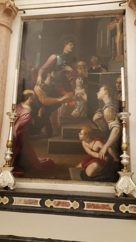 Painting of "Pardoning of San Giovanni Gualberto" by the painter Pietro Sorri, 1601, Astino Monestry Church, Bergamo, italy